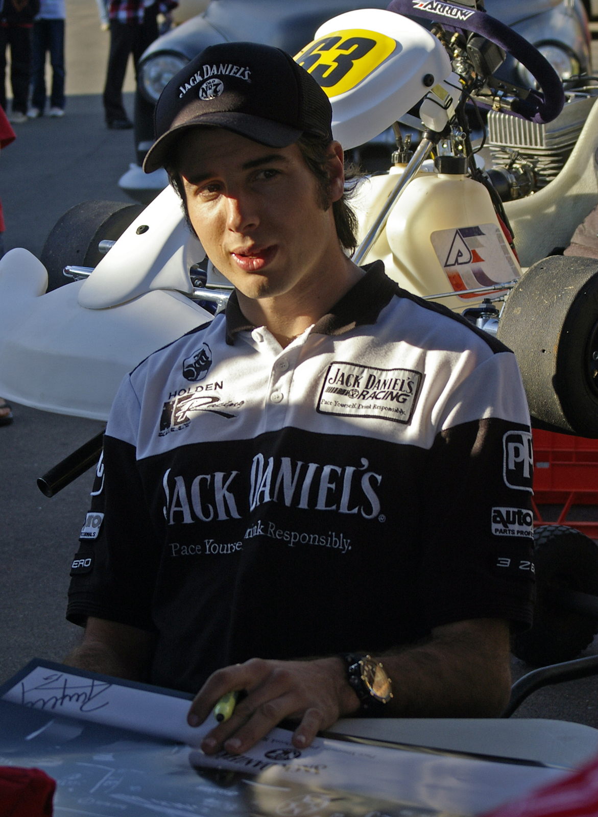 Rick Kelly at an autographing session at Red Rooster in Wagga Wagga, New South Wales.